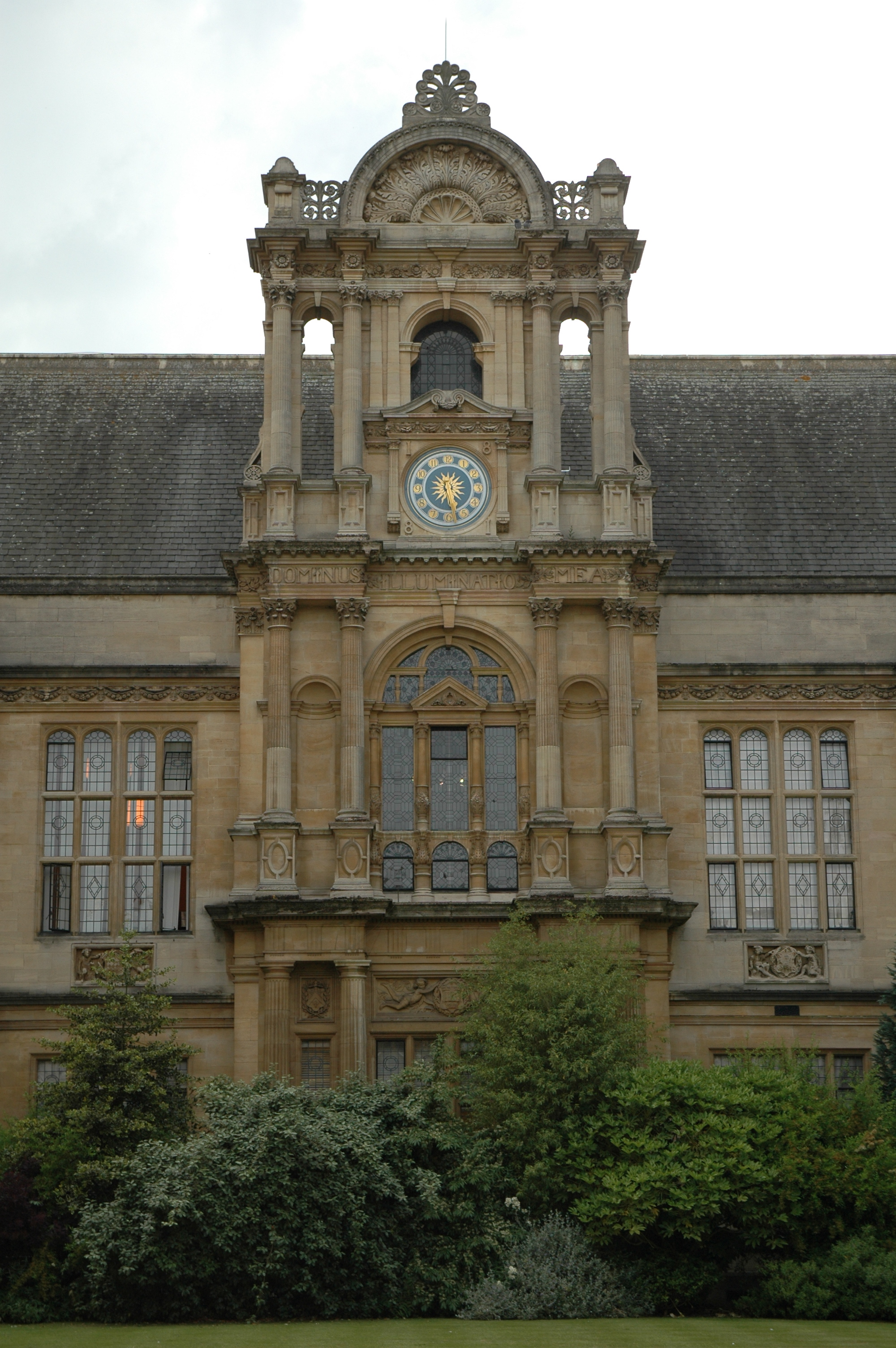 The Examination Schools (exam halls) at Oxford.